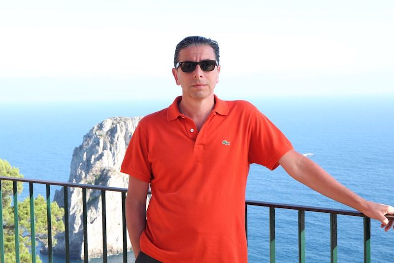 Antonio Monda